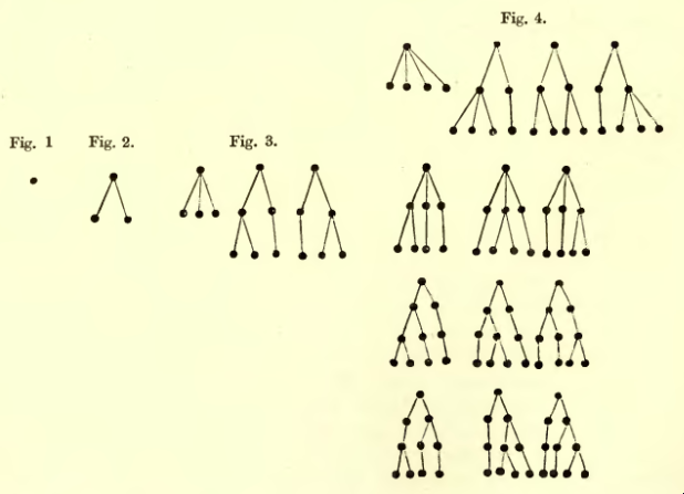 Image of a graph as mathematical structure. Showing all trees with 1, 2, 3, or 4 leaves.